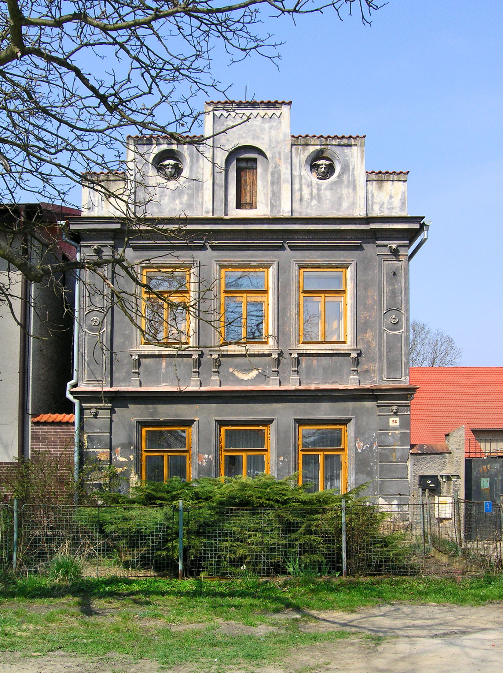 Central part of Brázdim village, Czech Republic